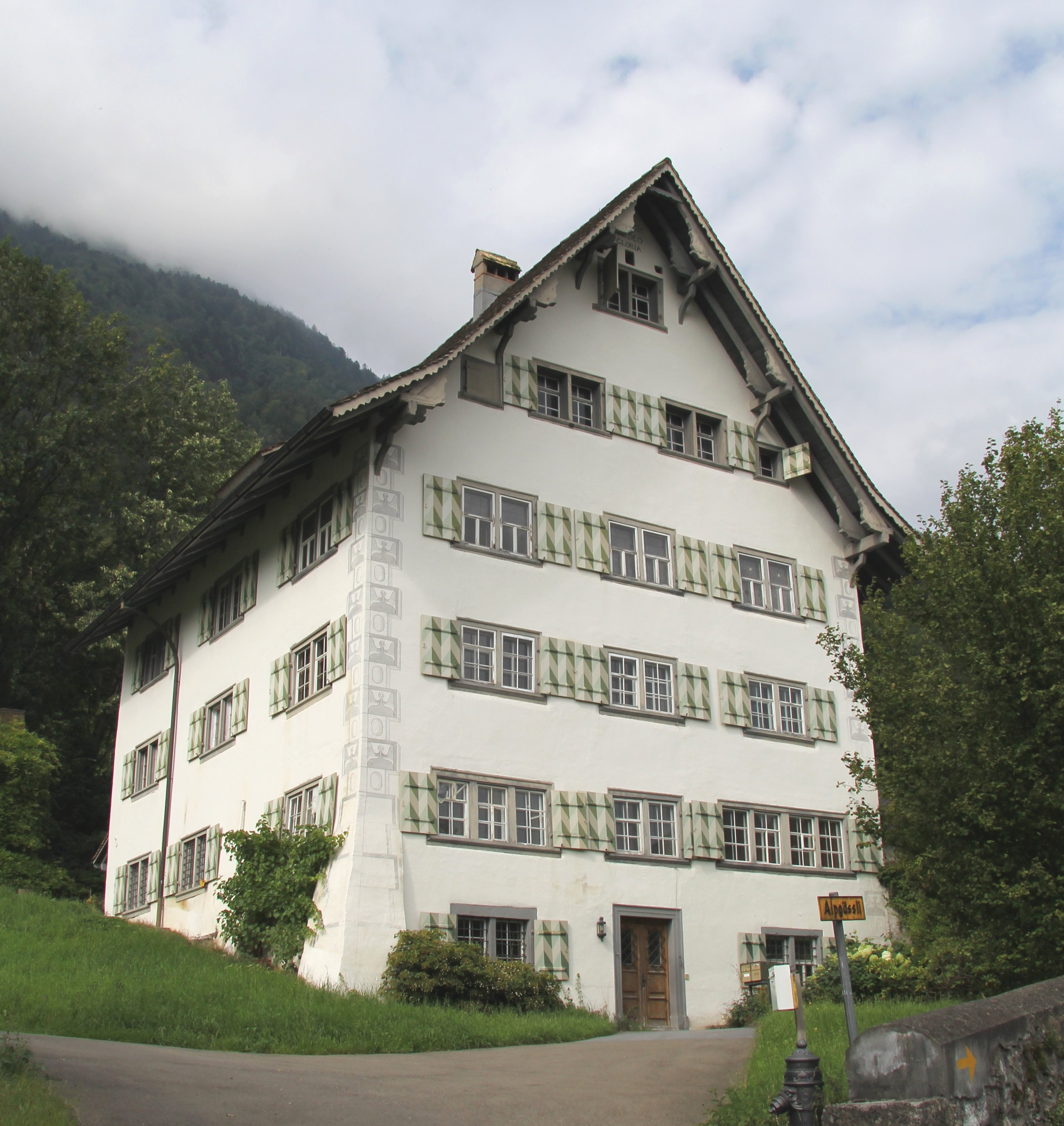 "Miltsches Ritterhaus", historic residential building in the community of Bilten, canton of Glarus, Switzerland